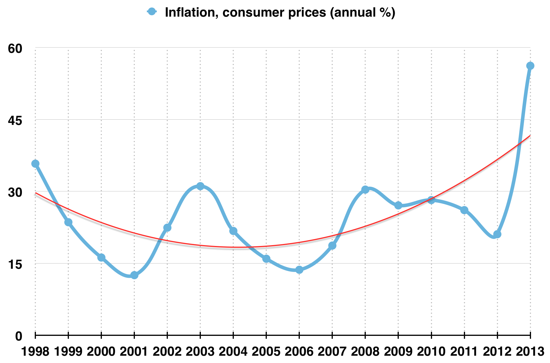 Inflation under Hugo Chavez's policies